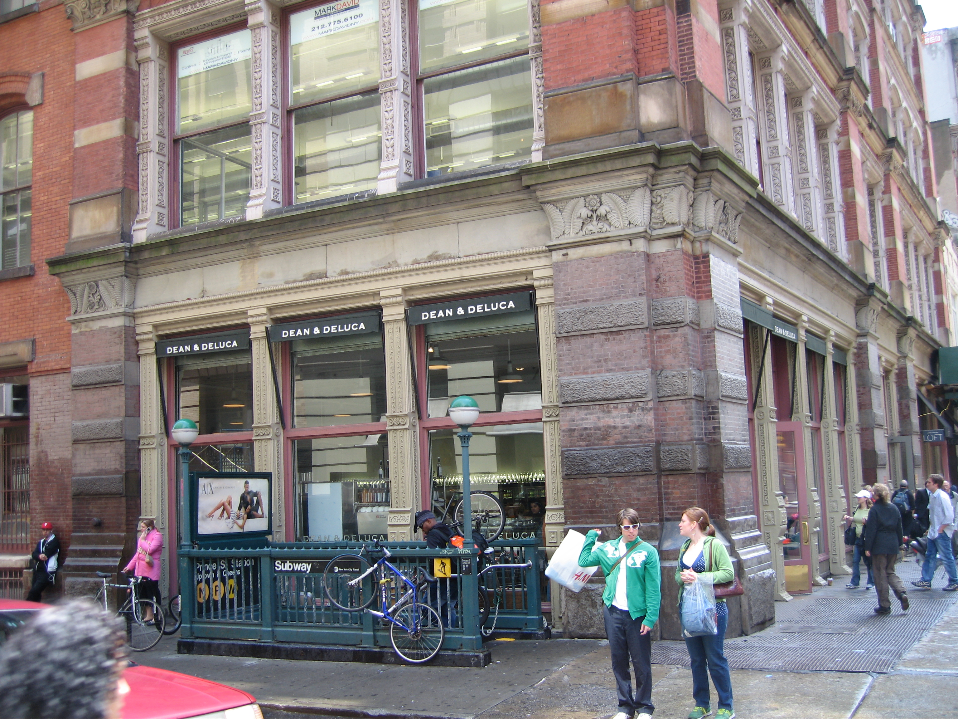 Dean & DeLuca (560 Broadway - New York)